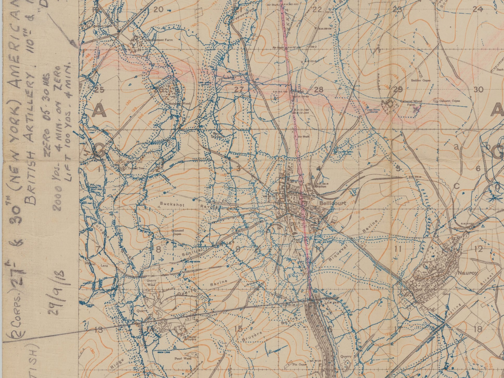 Detail from a 1;20,000 scale trench map 62.b NW (Bellicourt), showing the complexity of the Hindenburg Line defences, including the outpost line at left, the main line and the Le Catelet-Nauroy Line. The map carries annotations made by an officer of the Royal Field Artillery supporting U.S. 30th Division, in the 29th September attack.